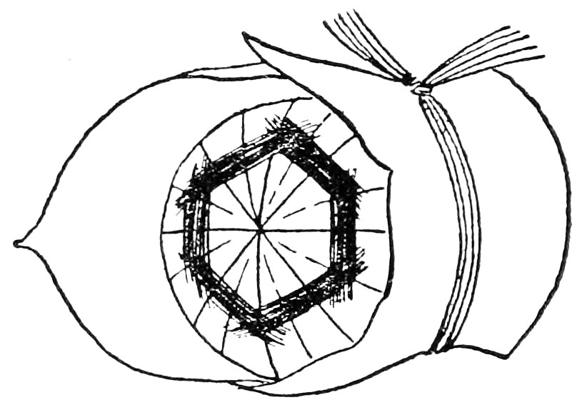 Illustration from Japanese Flower Arrangement Applied to Western Needs.